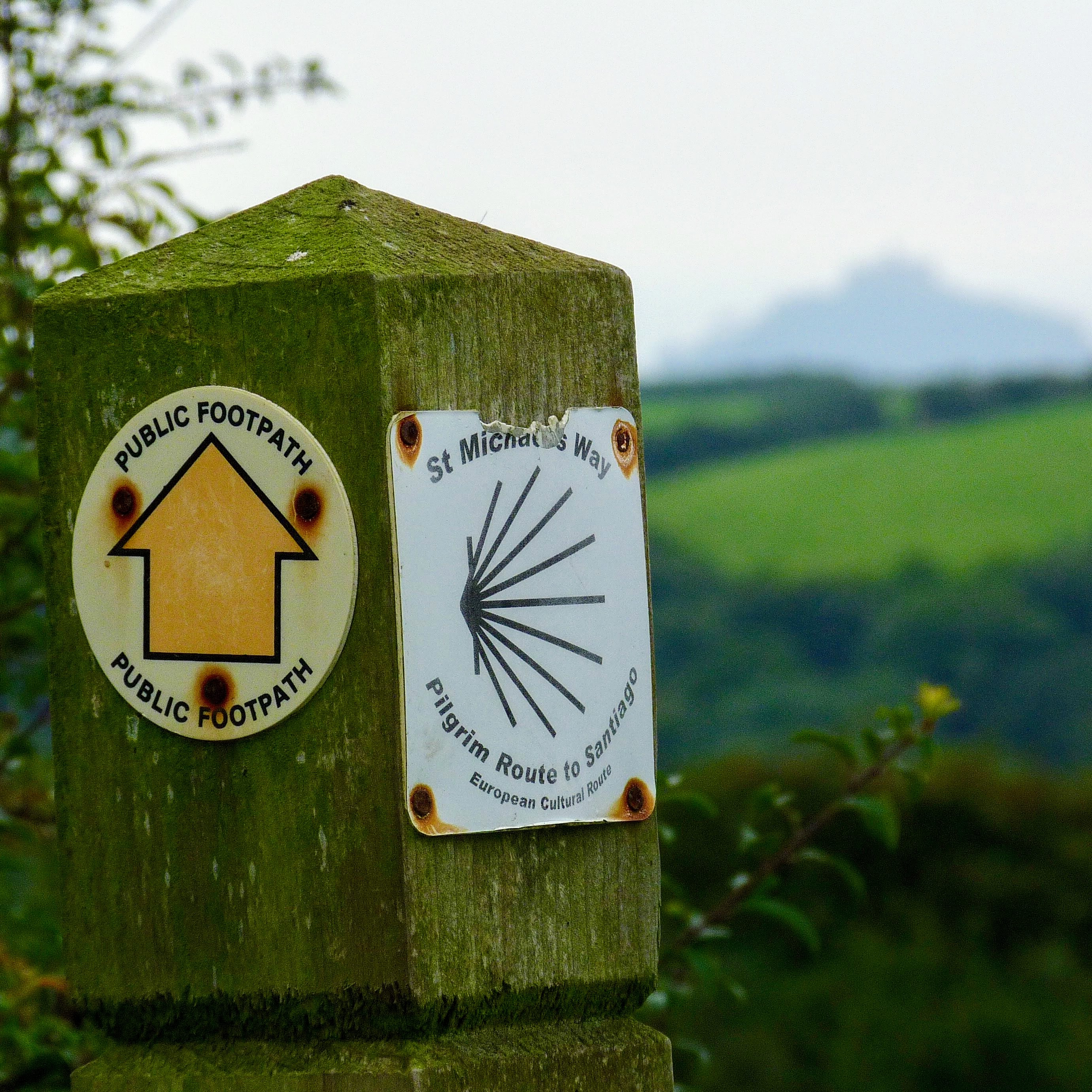 This photograph shows a post on the St Michael’s Way, with a public footpath direction indicator (the yellow arrow) and a waymark for the St Michael’s Way route (in the white circle). In the distance is St Michael’s Mount, which is the end point of the trail.